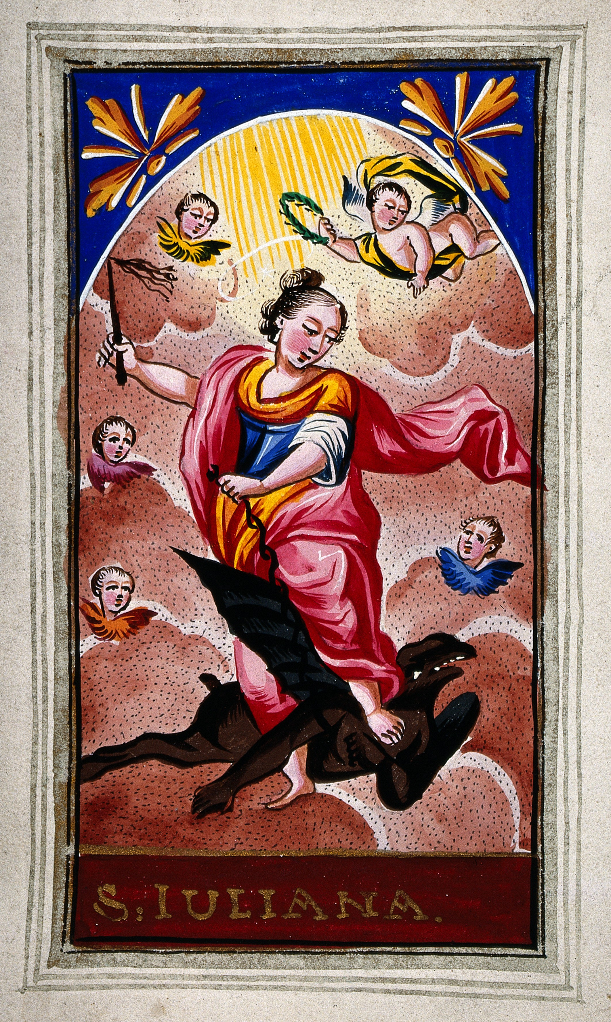 Saint Juliana. Gouache. Iconographic Collections